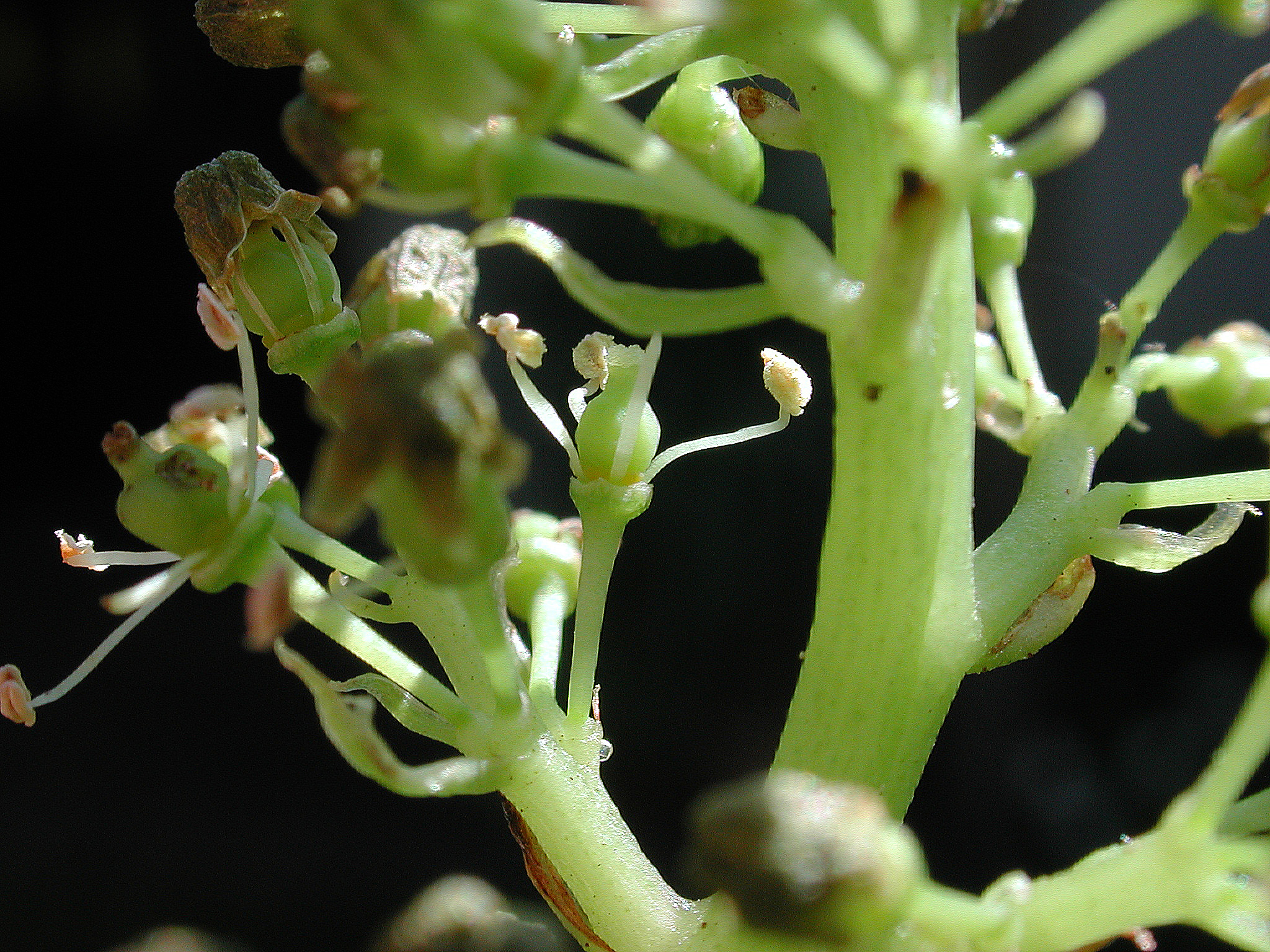 Flower of vitis vinifera (grape wine).